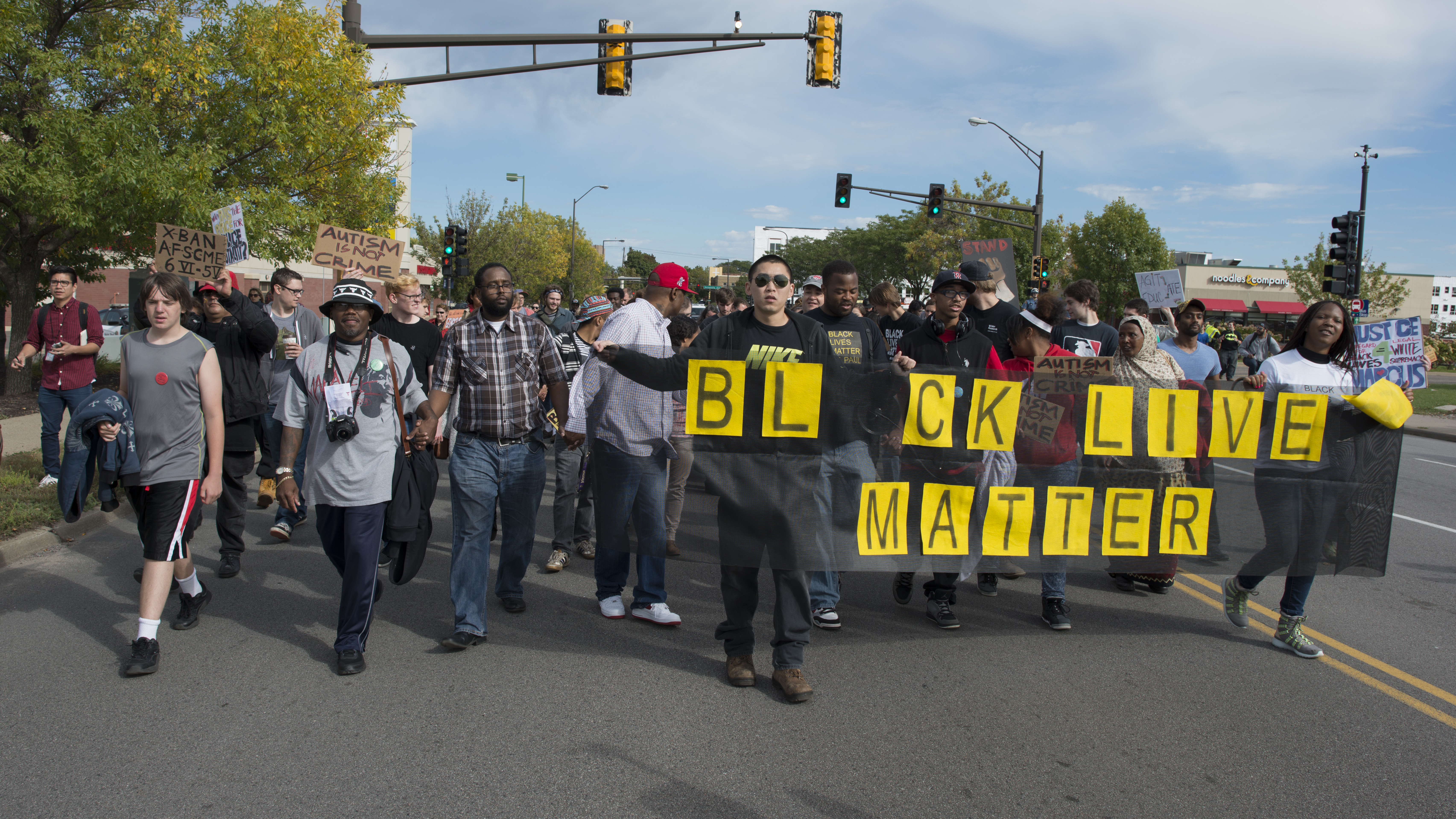 St. Paul, Minnesota September 20, 2015 Around 100 protesters blocked the light rail line in St. Paul to protest the treatment of Marcus Abrams by St. Paul police. Abrams, who is 17 and has Autism, was violently arrested by Metro Transit Police on August 31, 2015. During his arrest he suffered a split lip and multiple seizures. 2015-09-20 This is licensed under a Creative Commons Attribution License. Give attribution to: Fibonacci Blue